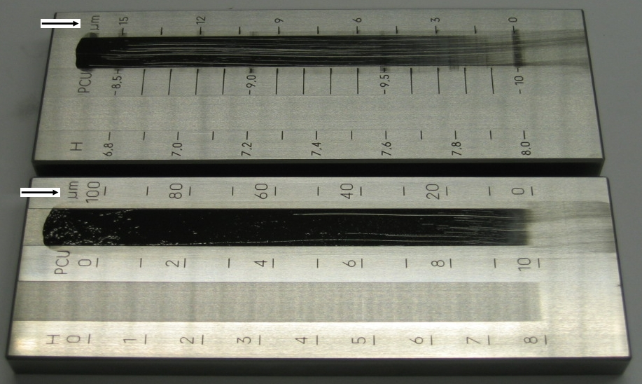 Metal paste streaked out on two grindometers with different scales (different layer thicknesses); The size and number of the metal particles in the paste can be judged using the scale.